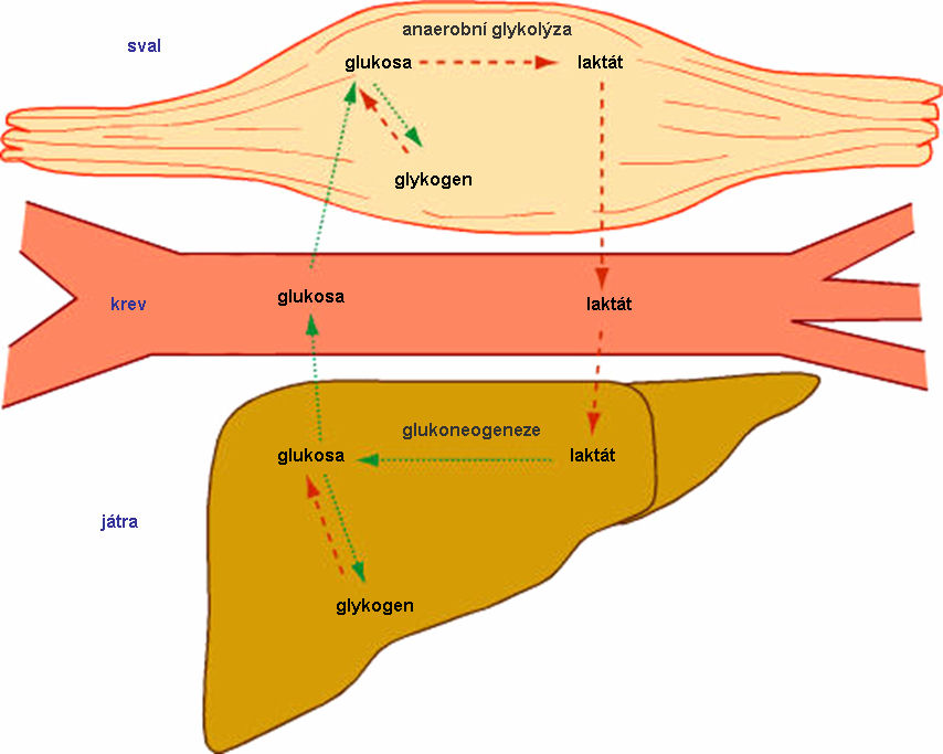 cori cycle